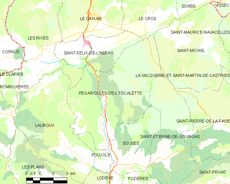 Map commune FR insee code 34196.png - Pégairolles-de-l'Escalette